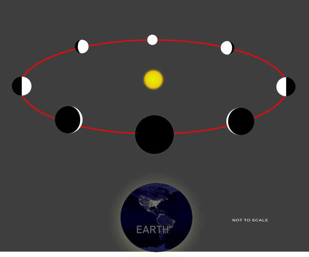 Phases of Venus